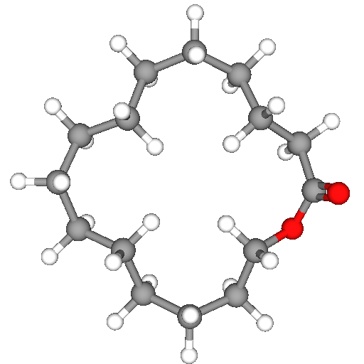 Structure of Cyclopentadecanolide